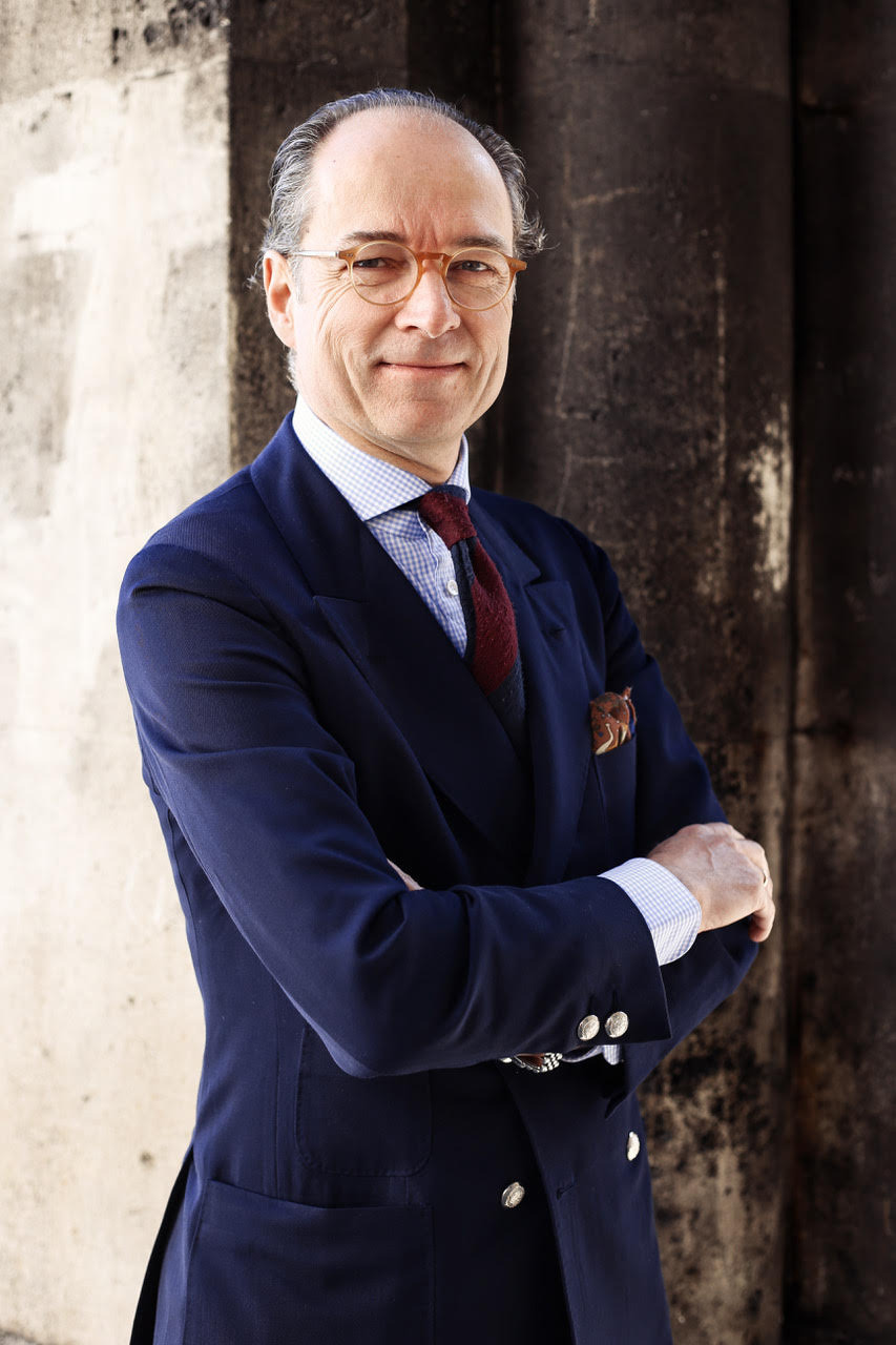 German author and men's fashion expert. Writer of Gentleman. A Timeless Guide to Fashion